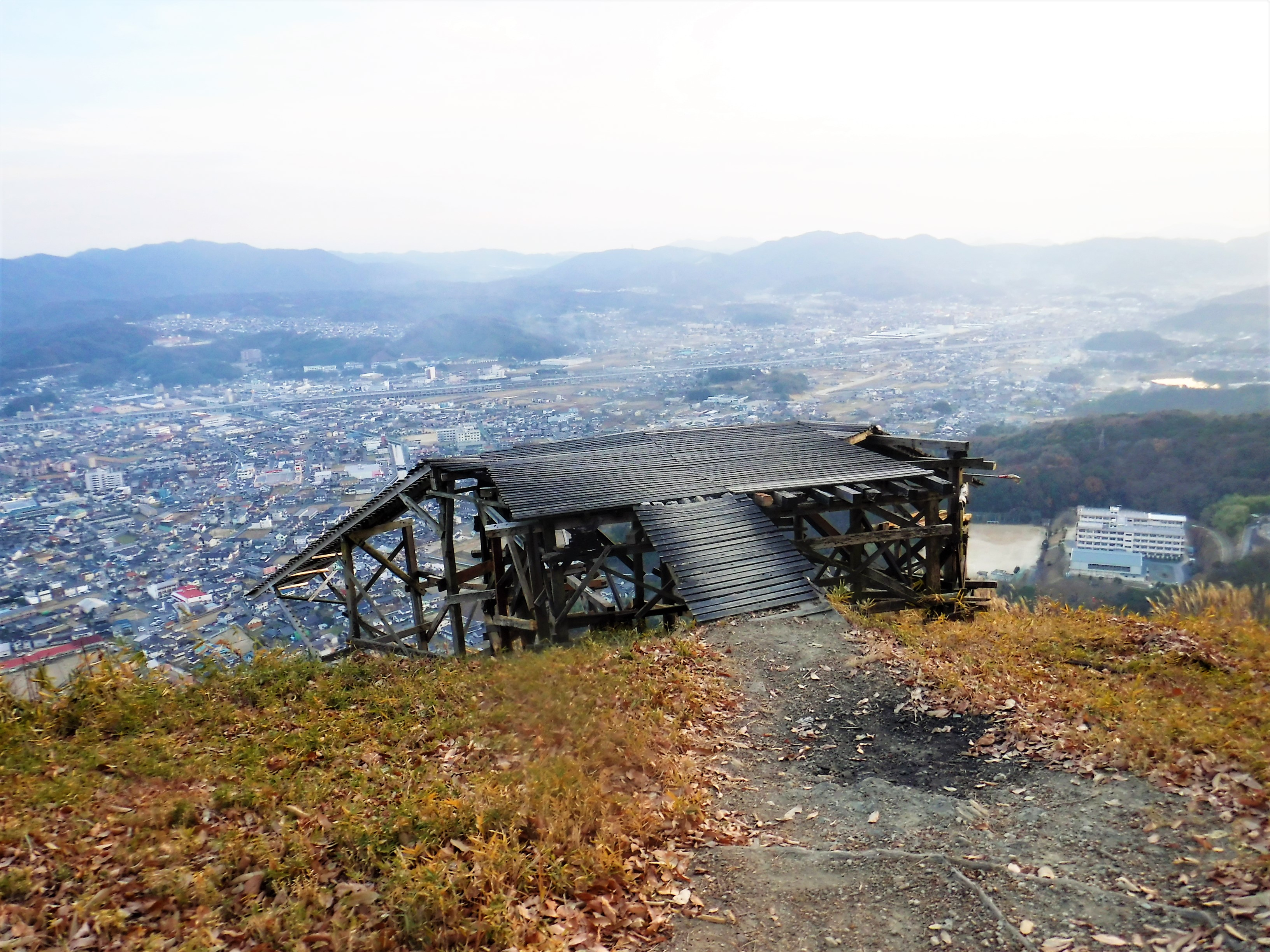 mt-jiou-fight-spot, fukuyama-city, hiroshima-pref, JAPAN, Paraglider take offs.